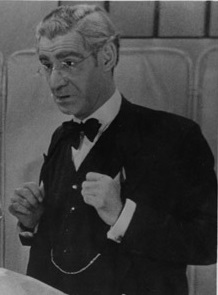 Vicente Climent- actor argentino